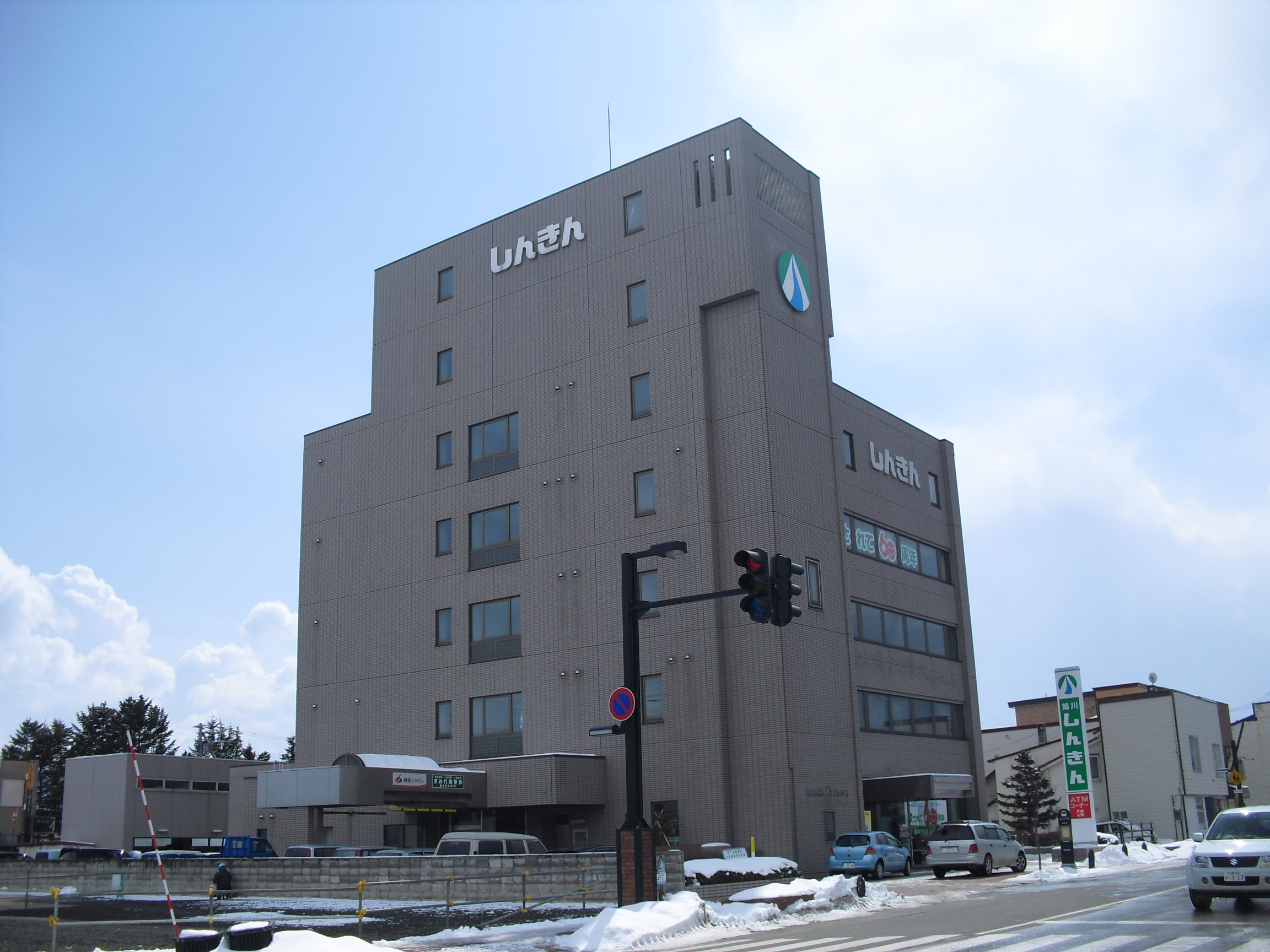 Furano(Asahikawa) shinkin bank